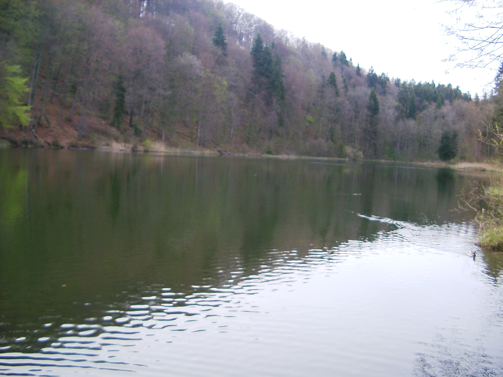 Pictures of the Egelsee (Switzerland, Aargau, Bergdietikon) and the arounds.